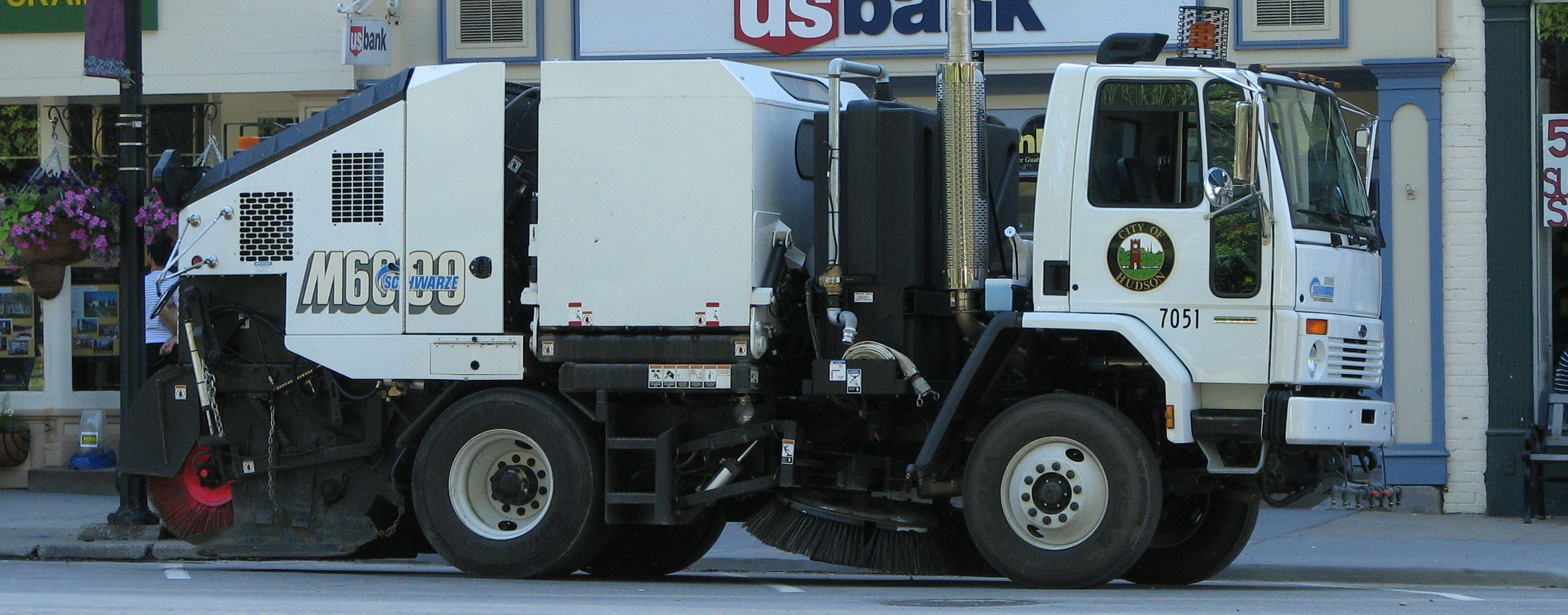 A Schwarze M6000 street sweeper used by the City of Hudson in Hudson, Ohio